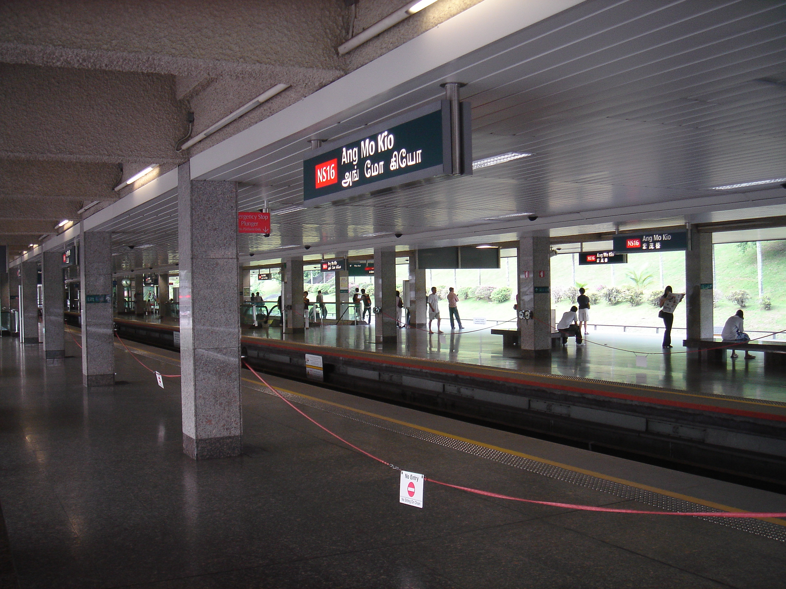 Middle platform of Ang Mo Kio Station, Ang Mo Kio, Singapore.